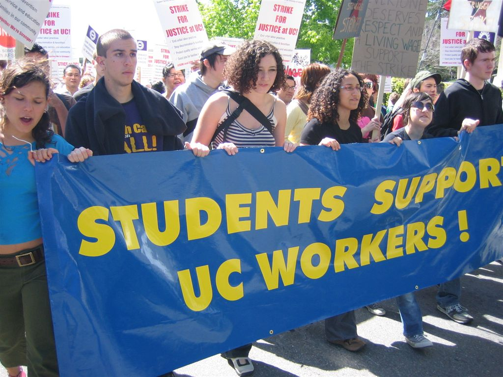 UC Berkeley is full of diversity.